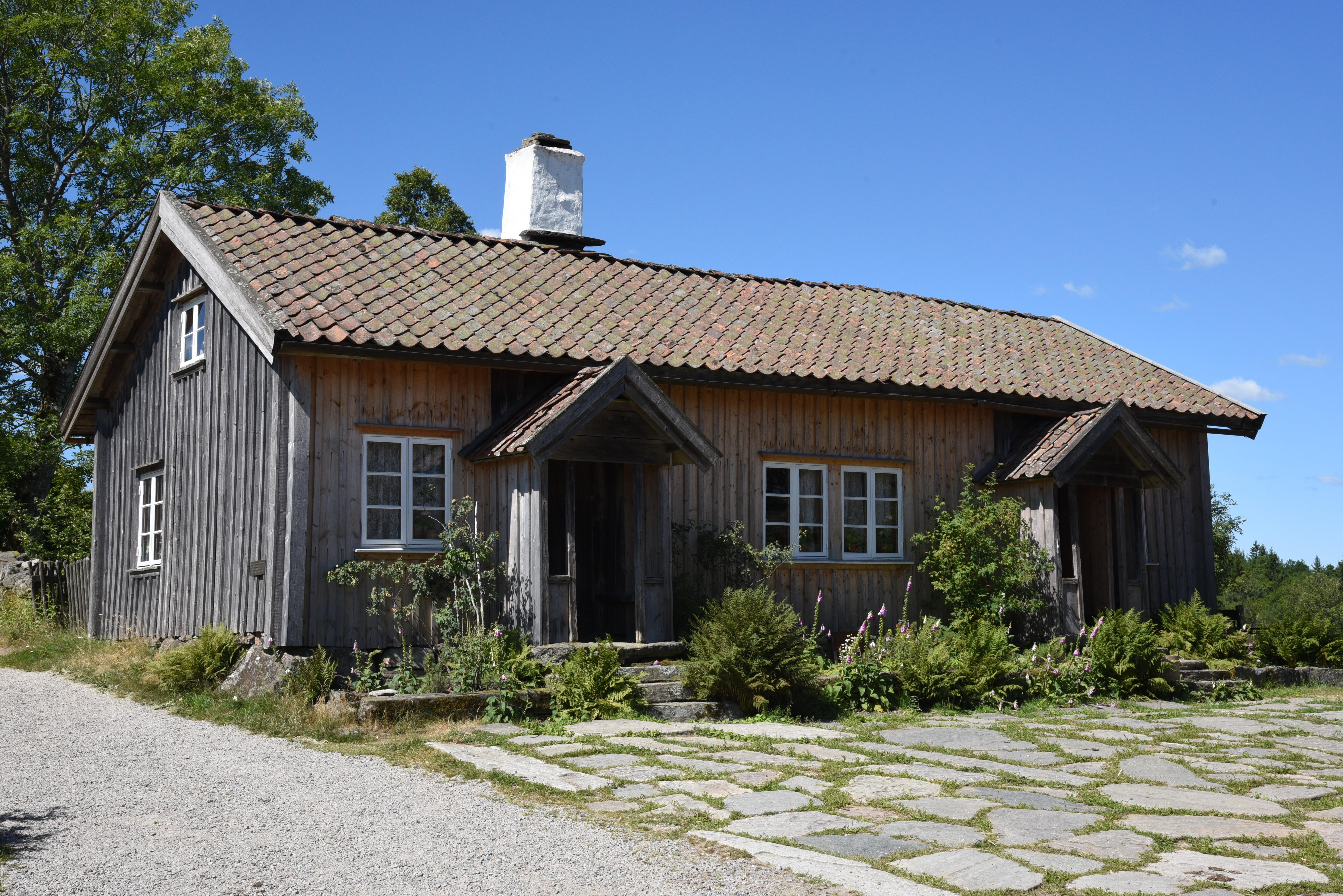 The village Äskhult in Förlanda socken, Kungsbacka community, Halland's county, Sweden. The farm house Derras.